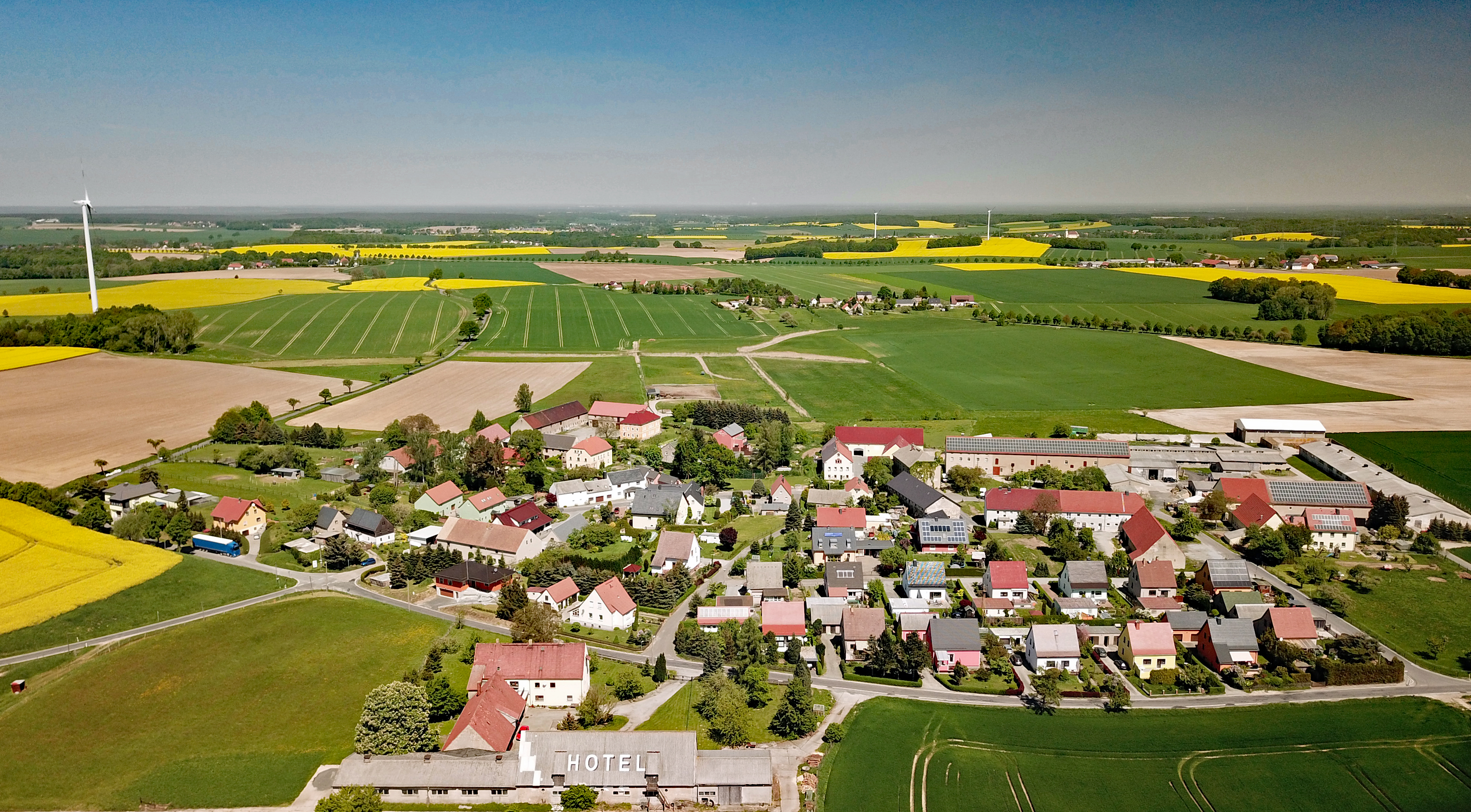 Jiedlitz (Burkau, Saxony, Germany) Hornjoserbsce: Powětrowy wobraz Jědlicy